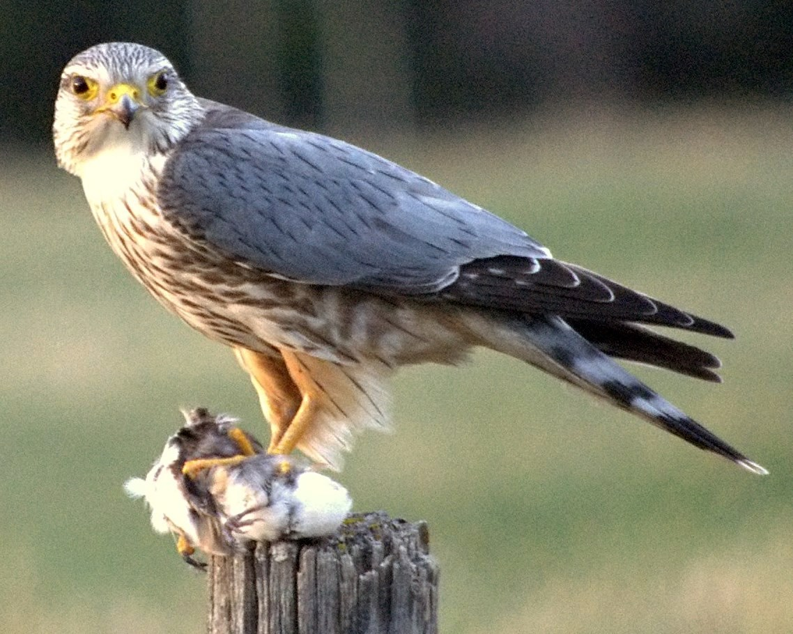 A Merlin eats its kill on a fencepost. Seen near Cochrane, Alberta. (cropped version)